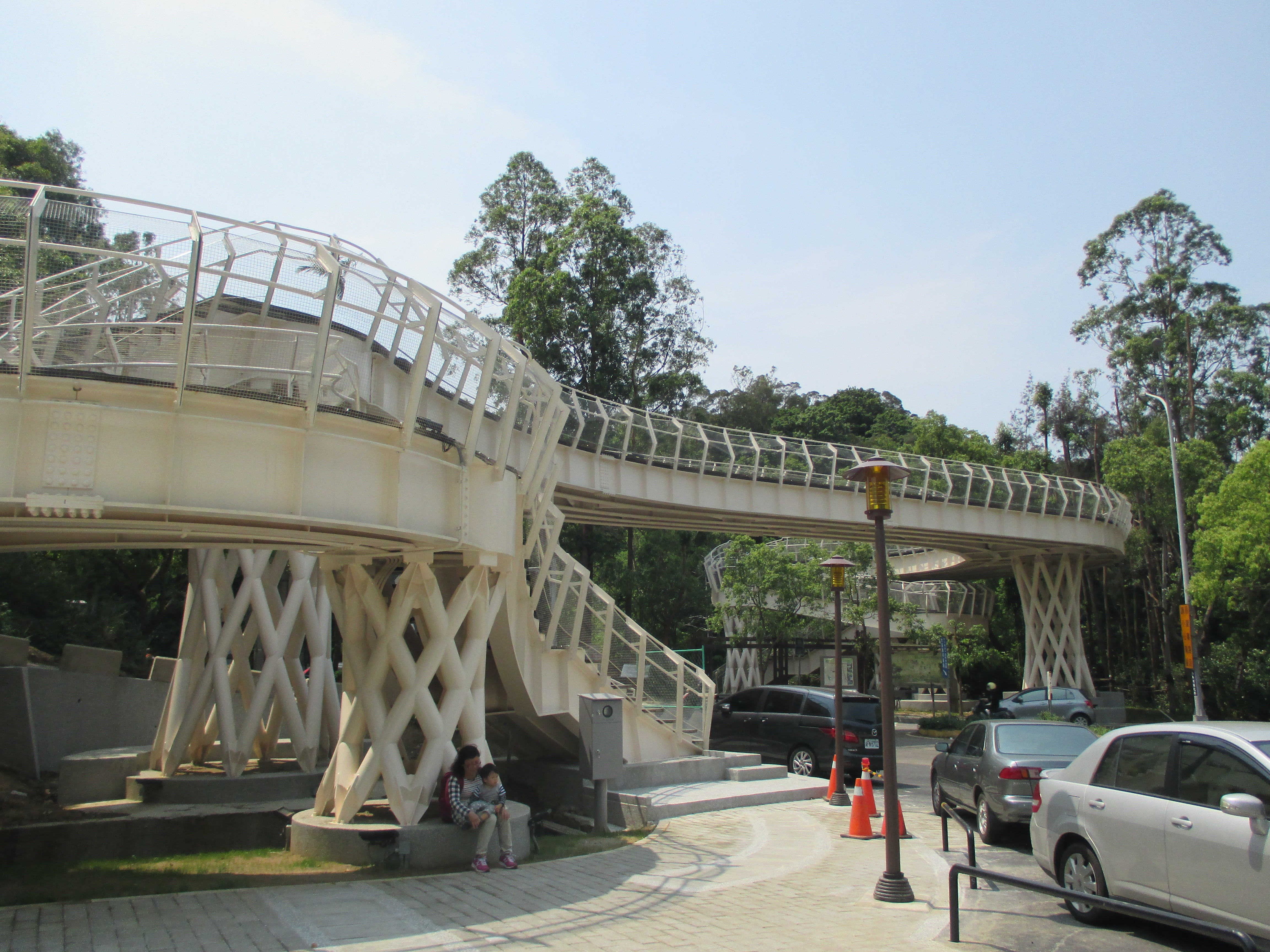 the Overpass between Gaofeng Botanical Garden and 18 Peaks Mountain